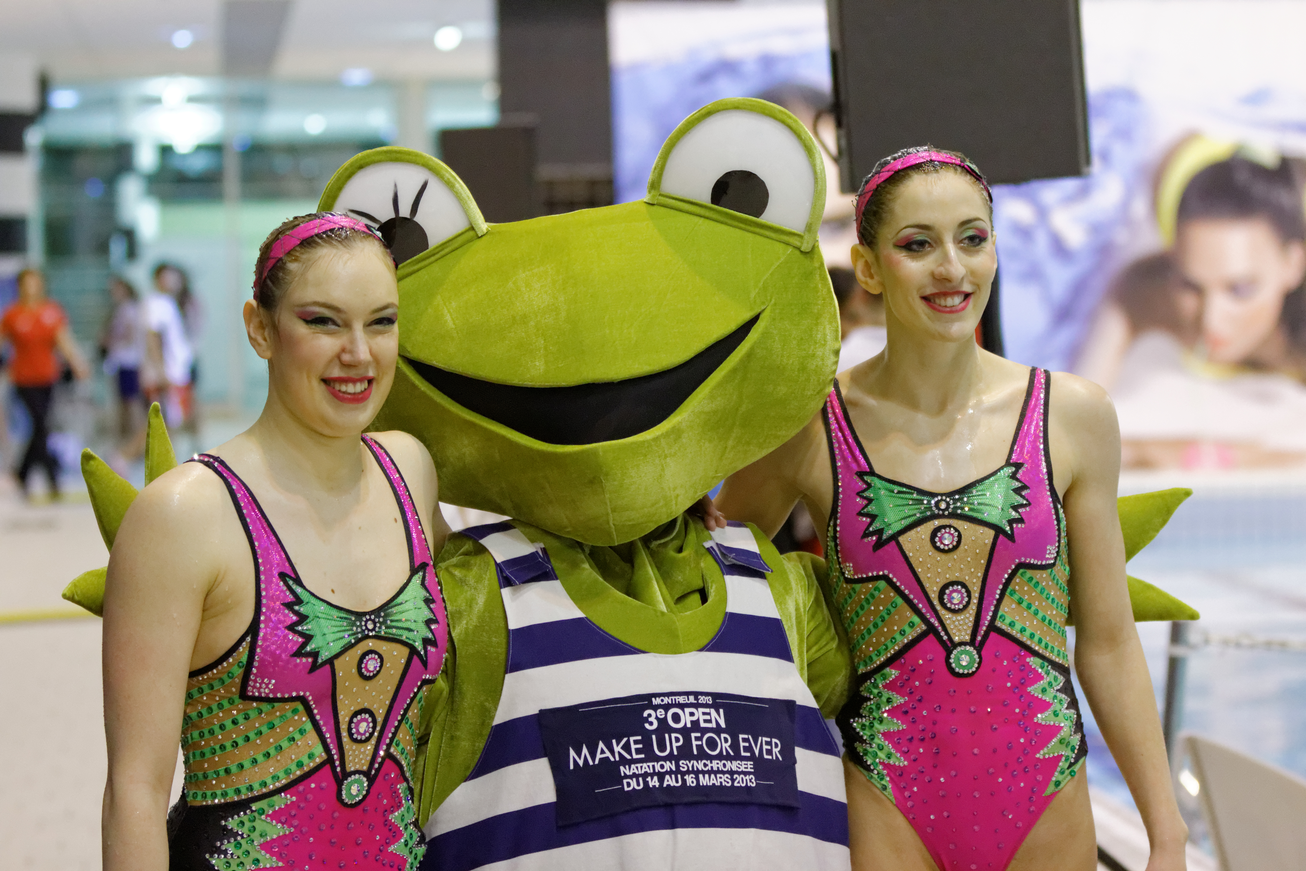 Laura Augé and Margaux Chrétien, duet free routine (final), Open Make Up For Ever.